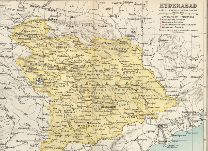 hyderabad-godavari valley railways